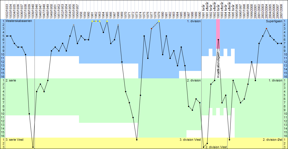 Esbjerg fB. League ranking, complete.